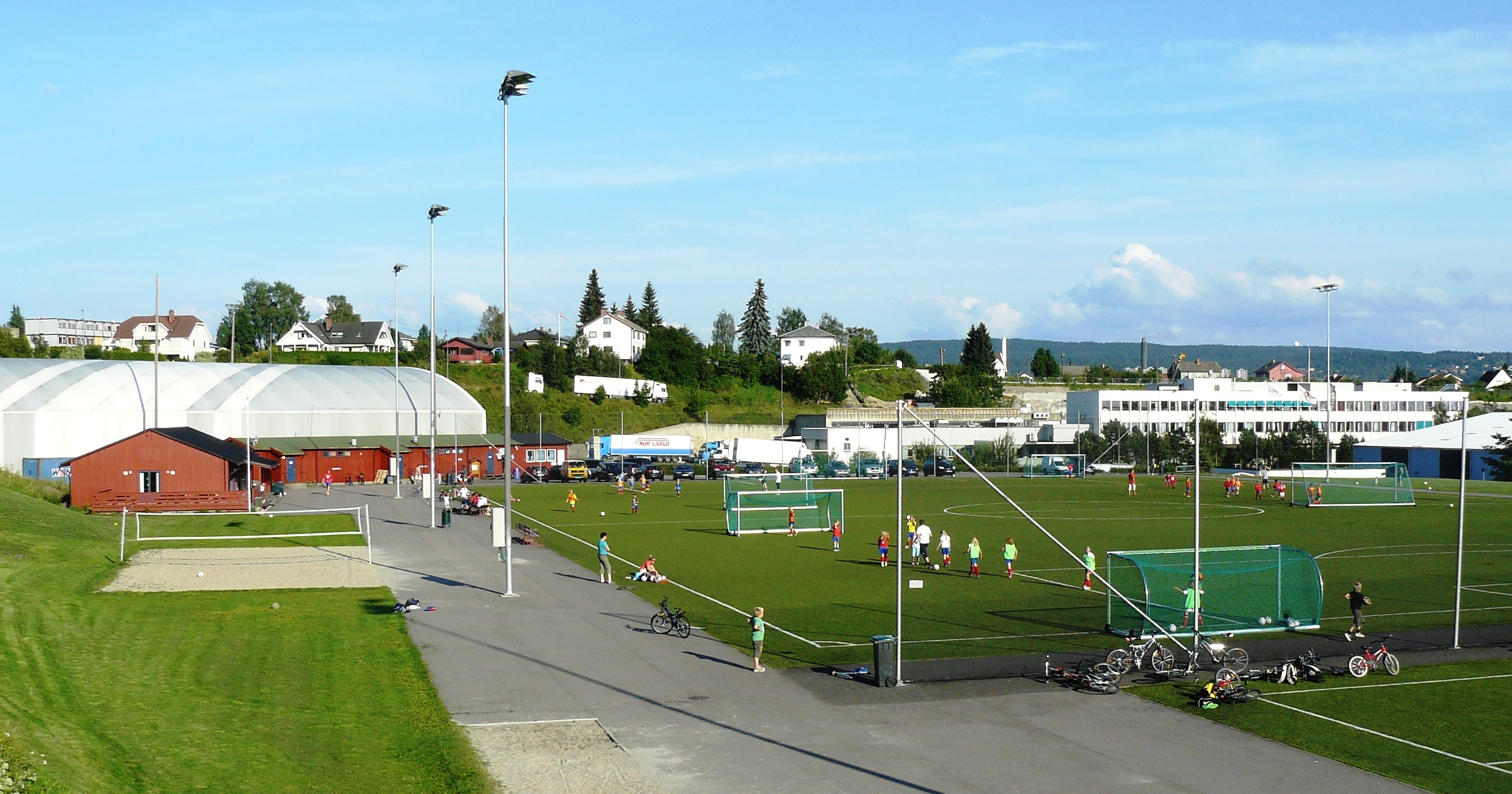 Lørenbanen - turf soccer stadion, Oslo